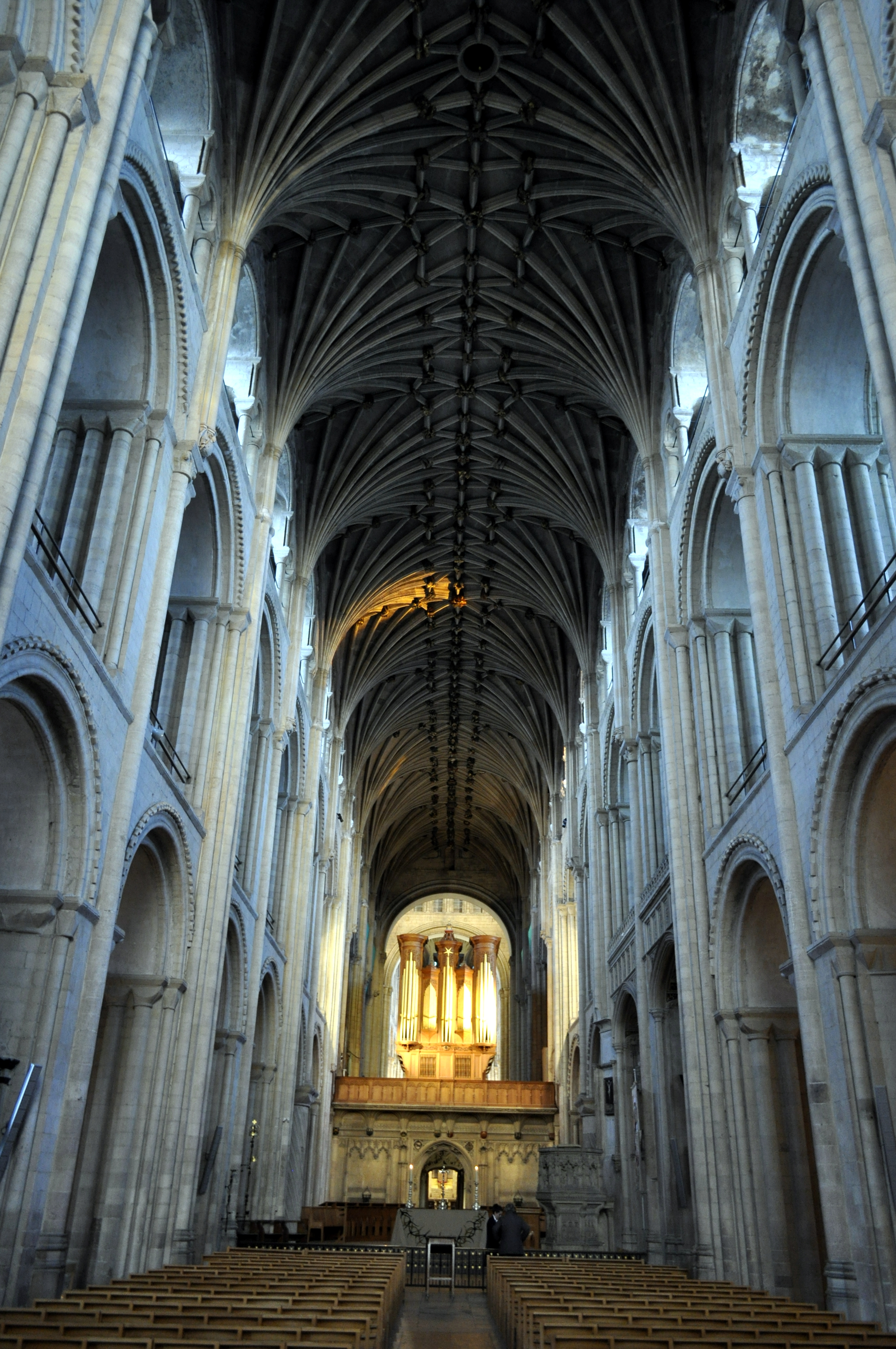 Norwich Cathedral